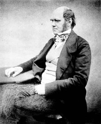 "Charles Darwin, aged 51." According to the son of Charles Darwin, Francis Darwin, this portrait is by Messrs. Maull and Fox[1]; he writes that "the date of the photograph is probably 1854; it is, however, impossible to be certain on this point, the books of Messrs. Henry Maull and John Fox having been destroyed by fire." A photo like this one has been used in